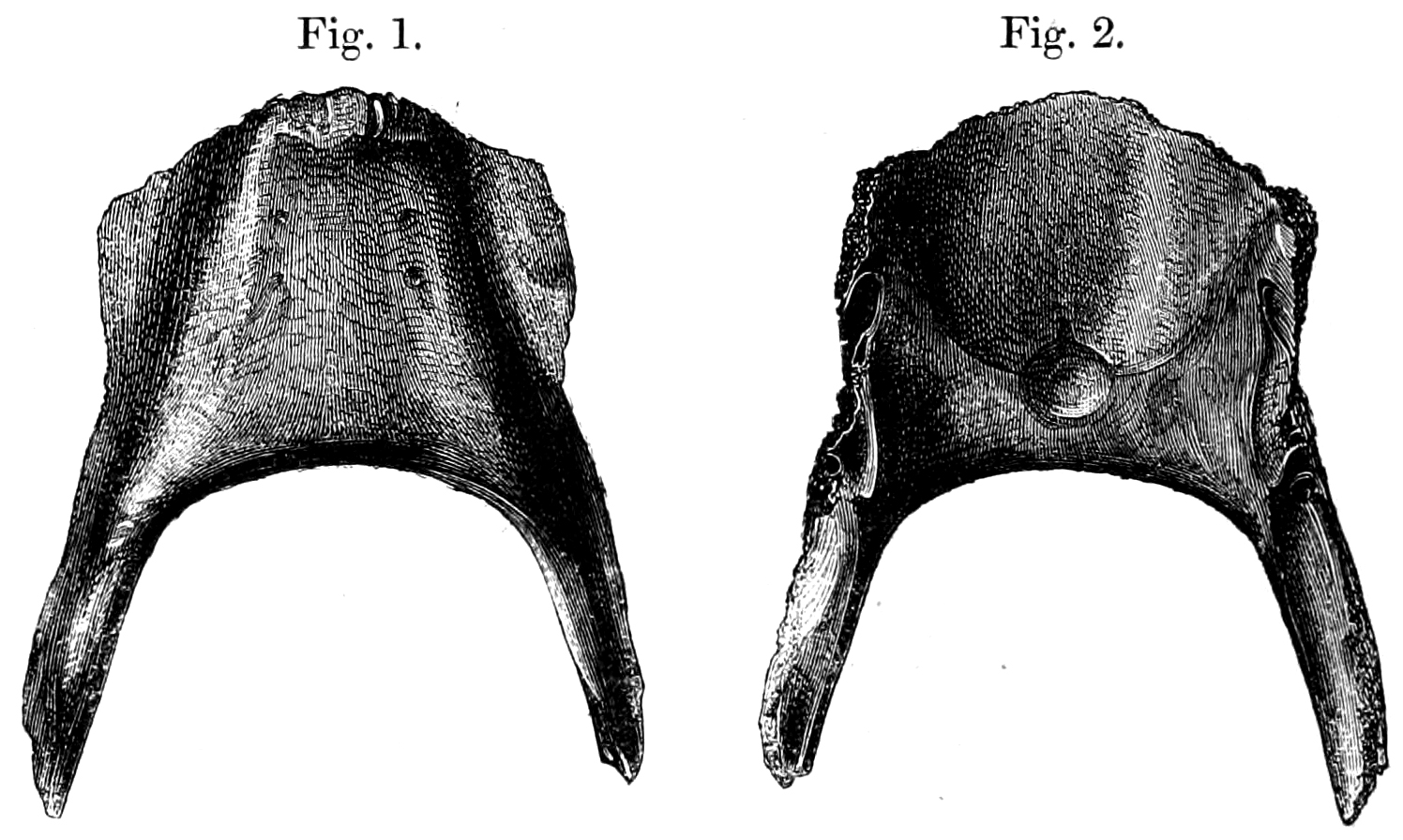 « Psittacus mauritianus » = Lophopsittacus mauritianus (Broad-billed Parrot) - bill